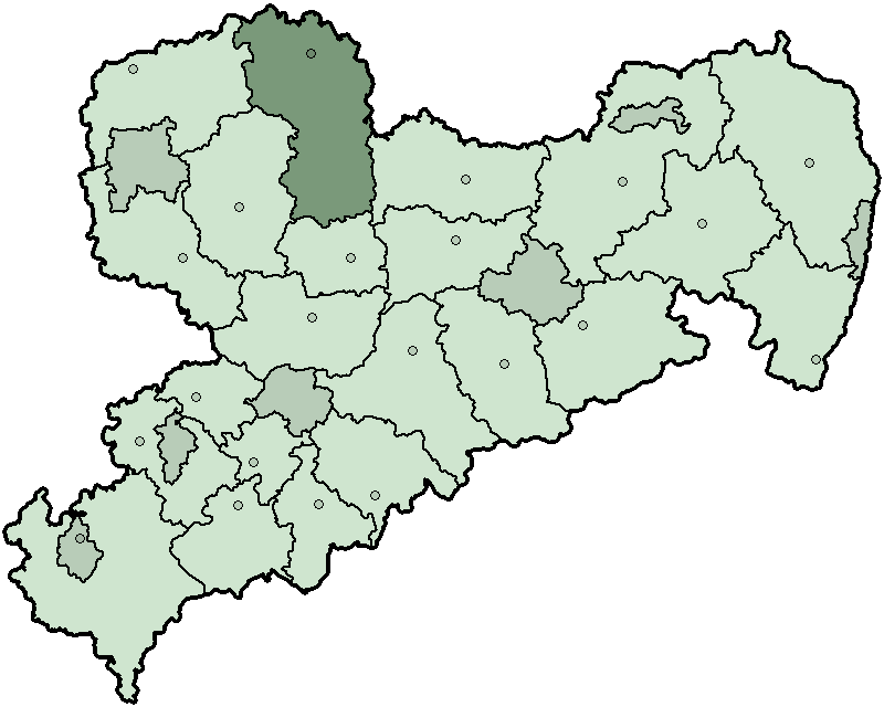 Map of the state Saxony in Germany before 2008, district Torgau-Oschatz highlighted.